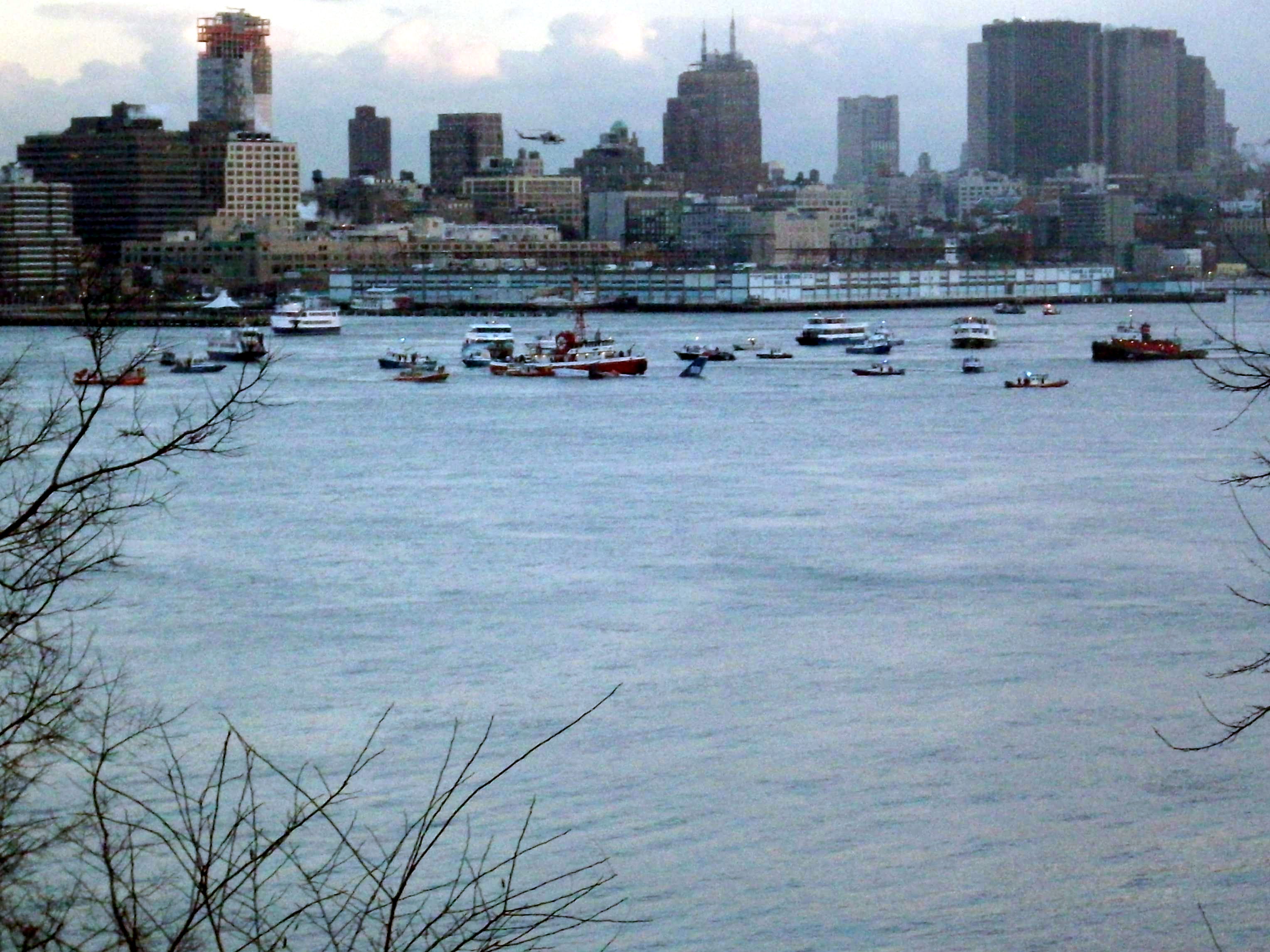 Picture of recovery effort for US Airways Flight 1549 in the Hudson River, taken from the New Jersey side, at Stevens Institute of Technology